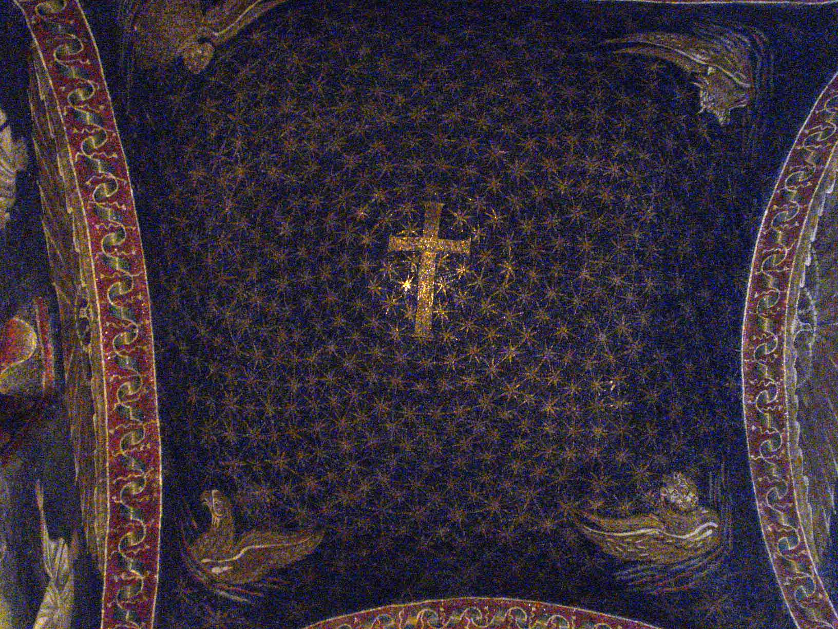 Cross and stars (cupola mosaic)